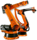 6 Axis Articulated Robots from KUKA Transparent version